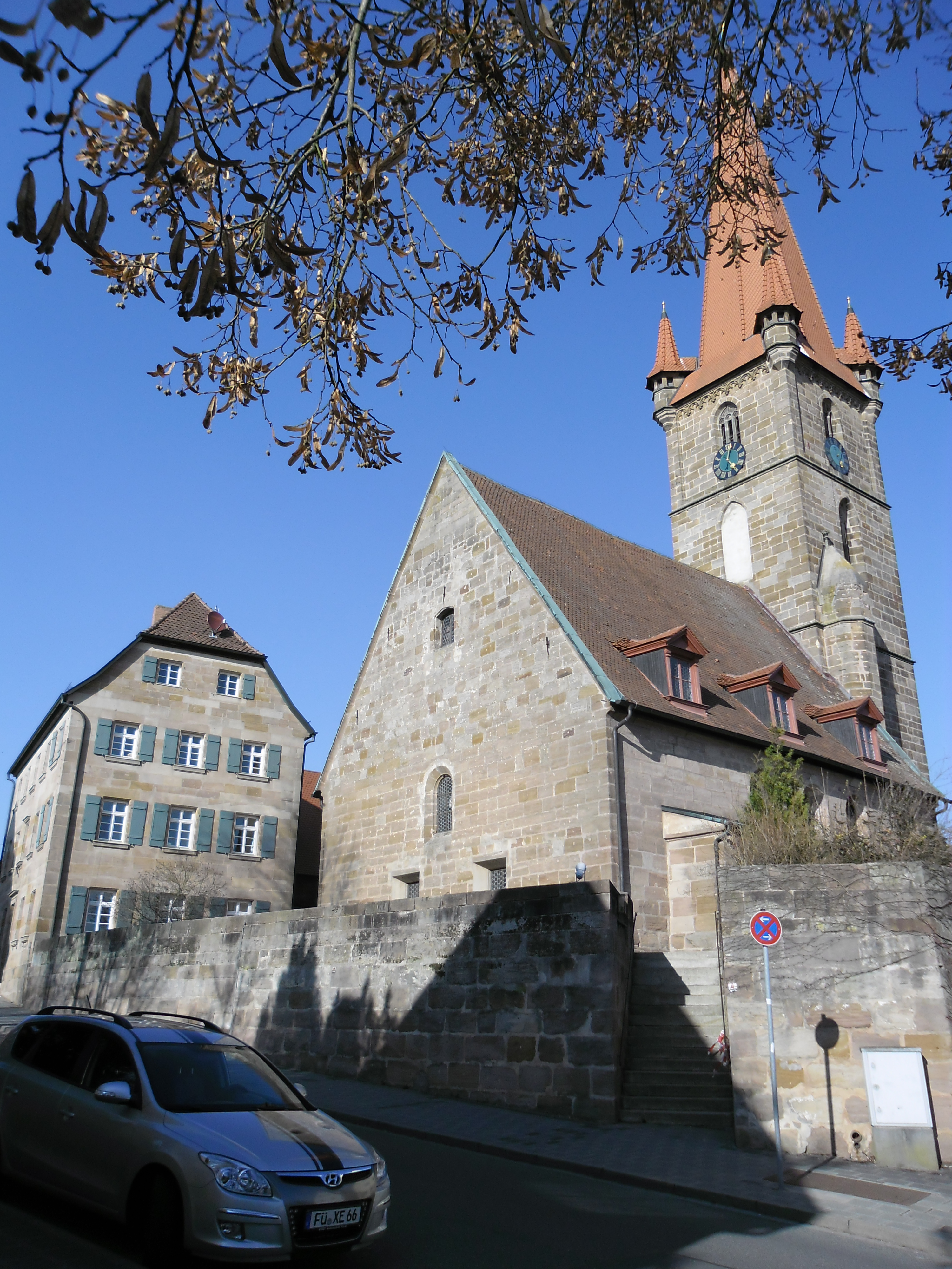 St. John in Fuerth-Burgfarrnbach seen from a southwestern direction